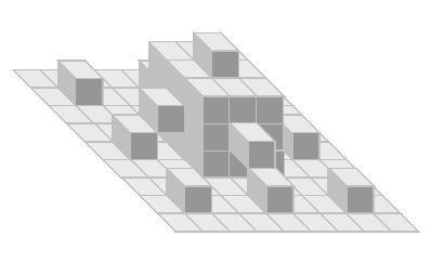 Quadratic Koch surface (type1). The figure shows the 2nd iteration.